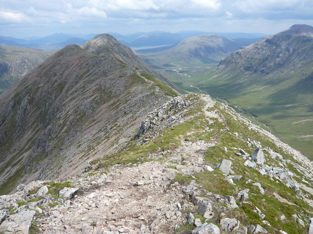 Looking NE along Buachaille Etive Beag ridge Approaching the 902 metre point which lies in this square.